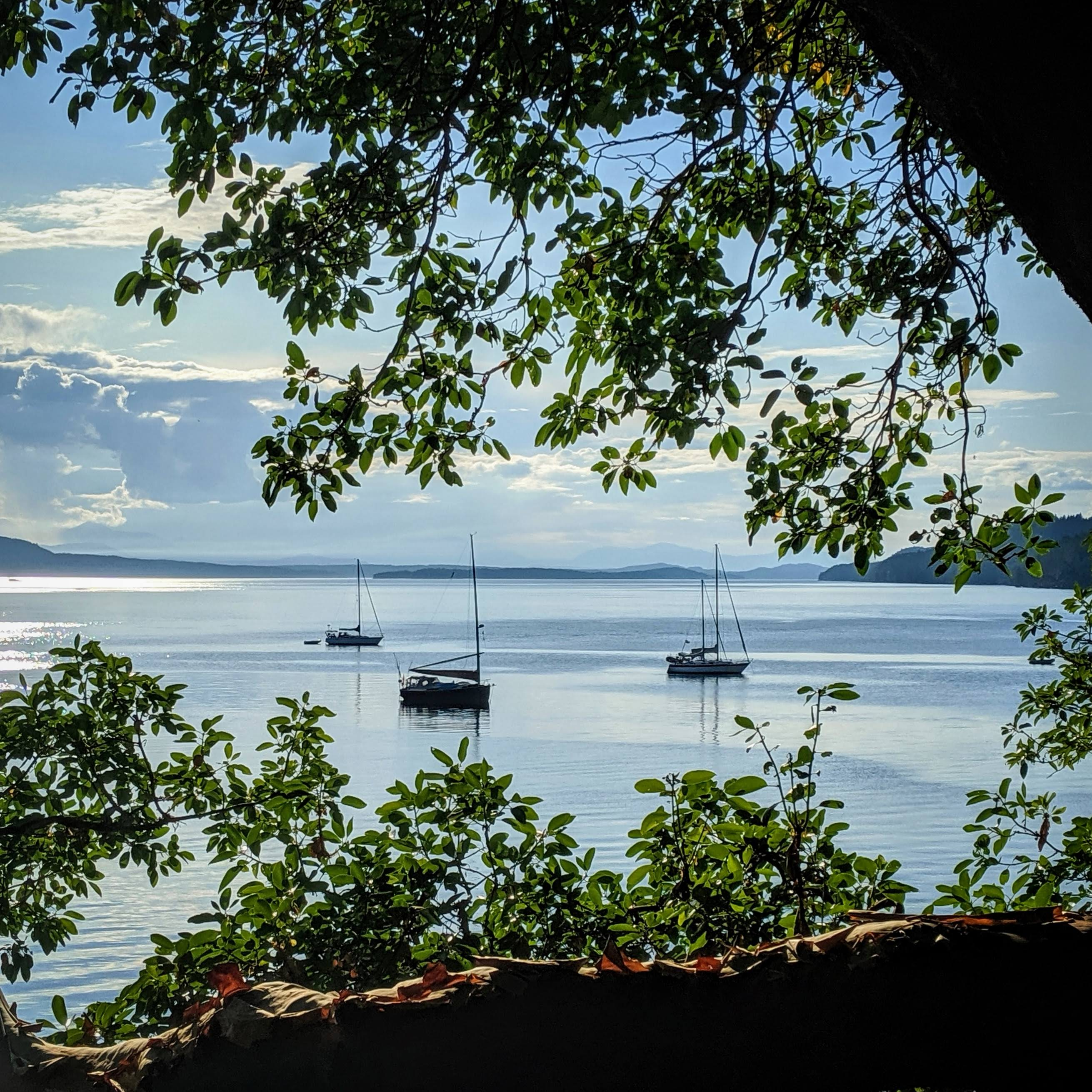 Boats anchored in Montague Harbour, seen from Montague Harbour Marine Provincial Park